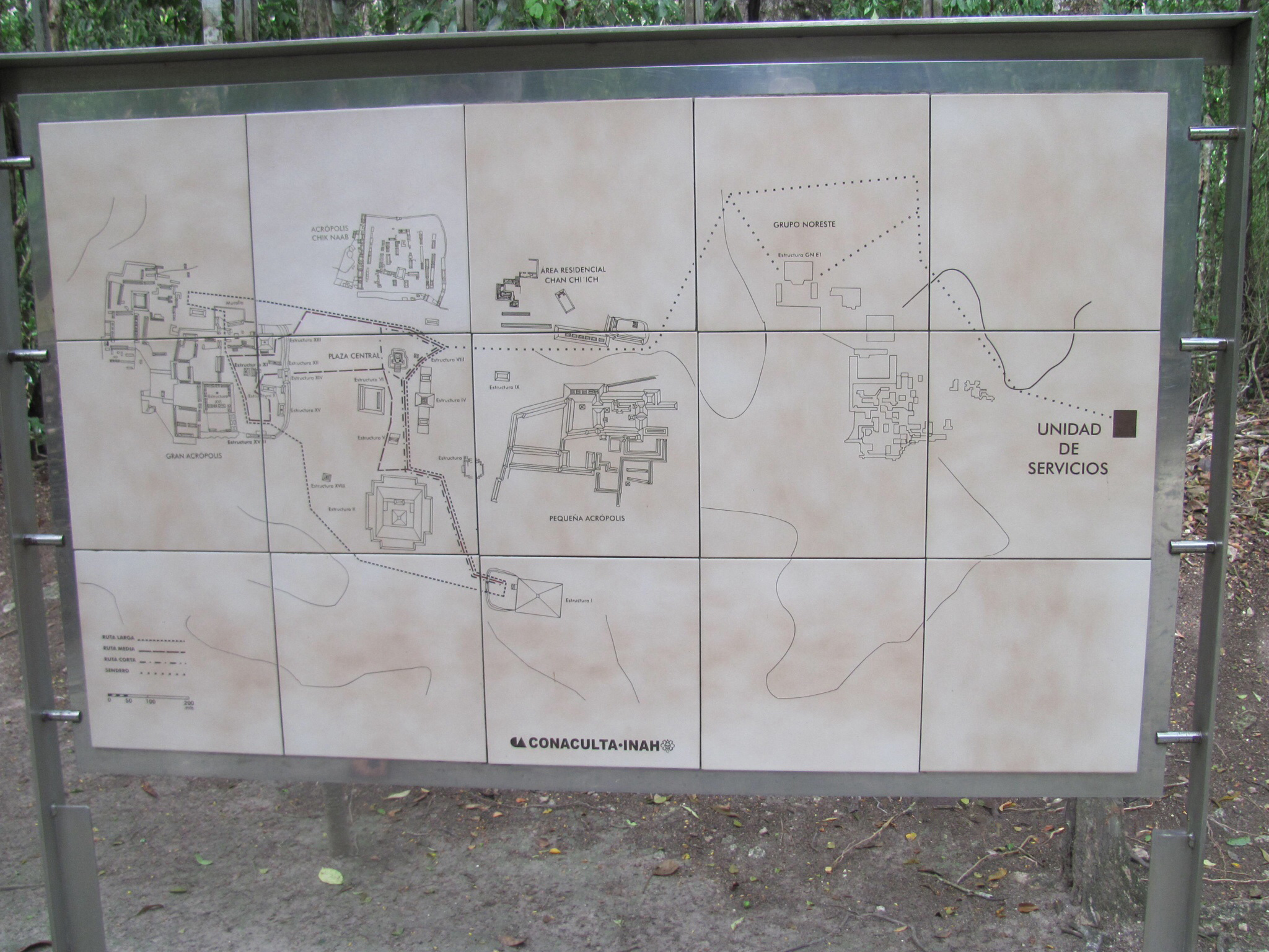 Plattegrond Great Square